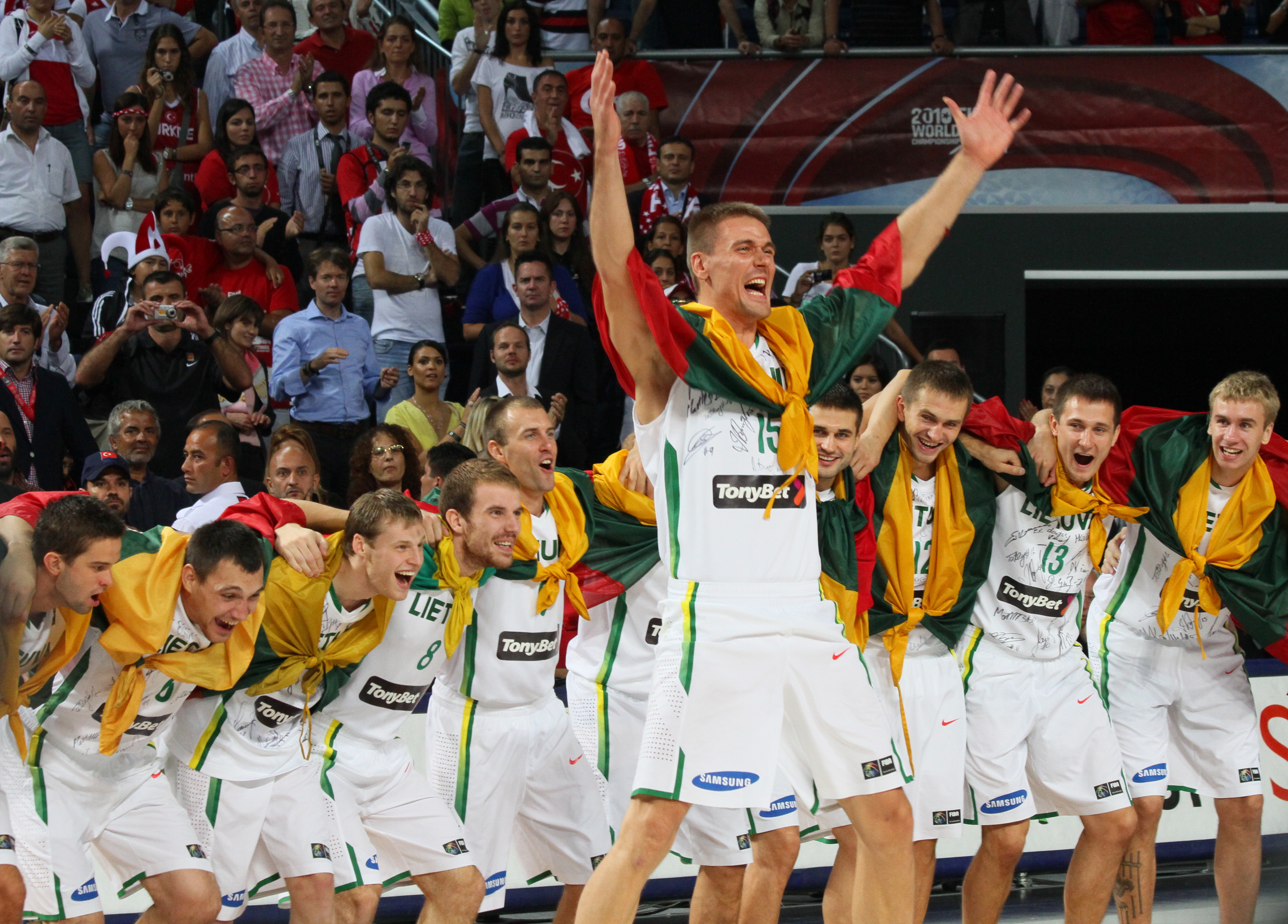 Lithuania national man basketball team at FIBA World Championship 2010, in Turkey.